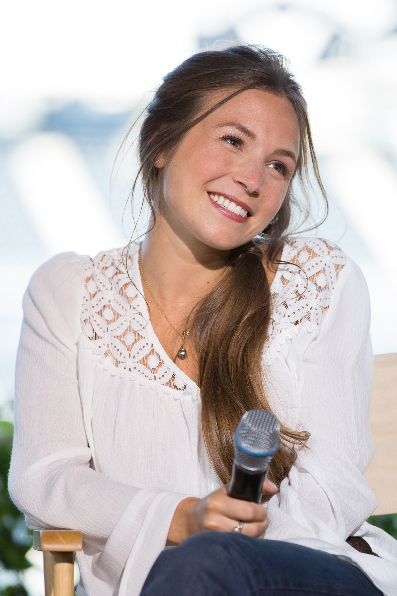 Dominique Provost-Chalkley at the Wynonna Earp discussion at Camp Conival in San Diego